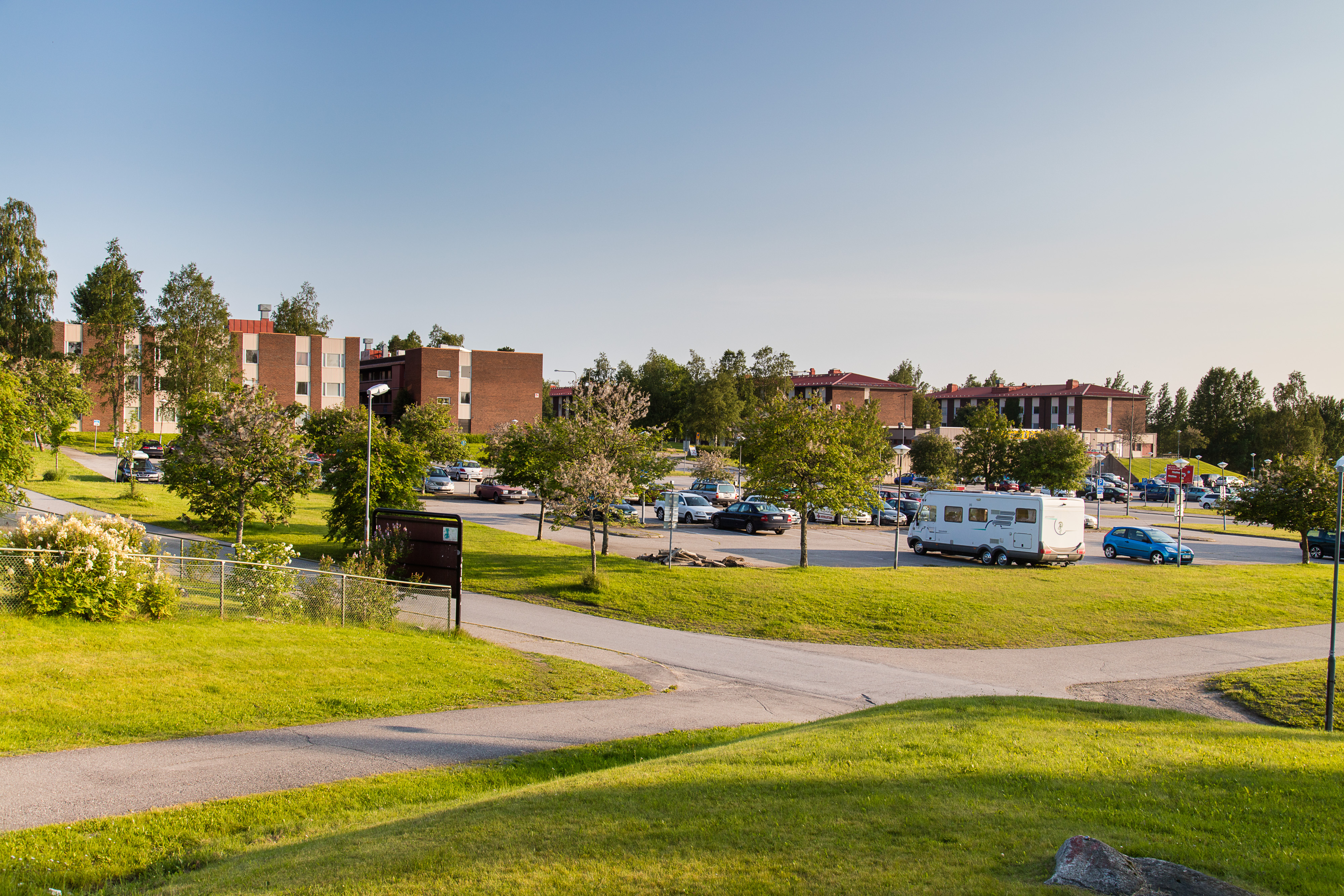 Carlshöjd is a district of eastern Umeå, Sweden.